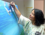 Susanne Praetorius